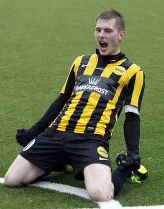 Klæmint celebrates one of his 21 goals of the 2013-season in Effodeildin.